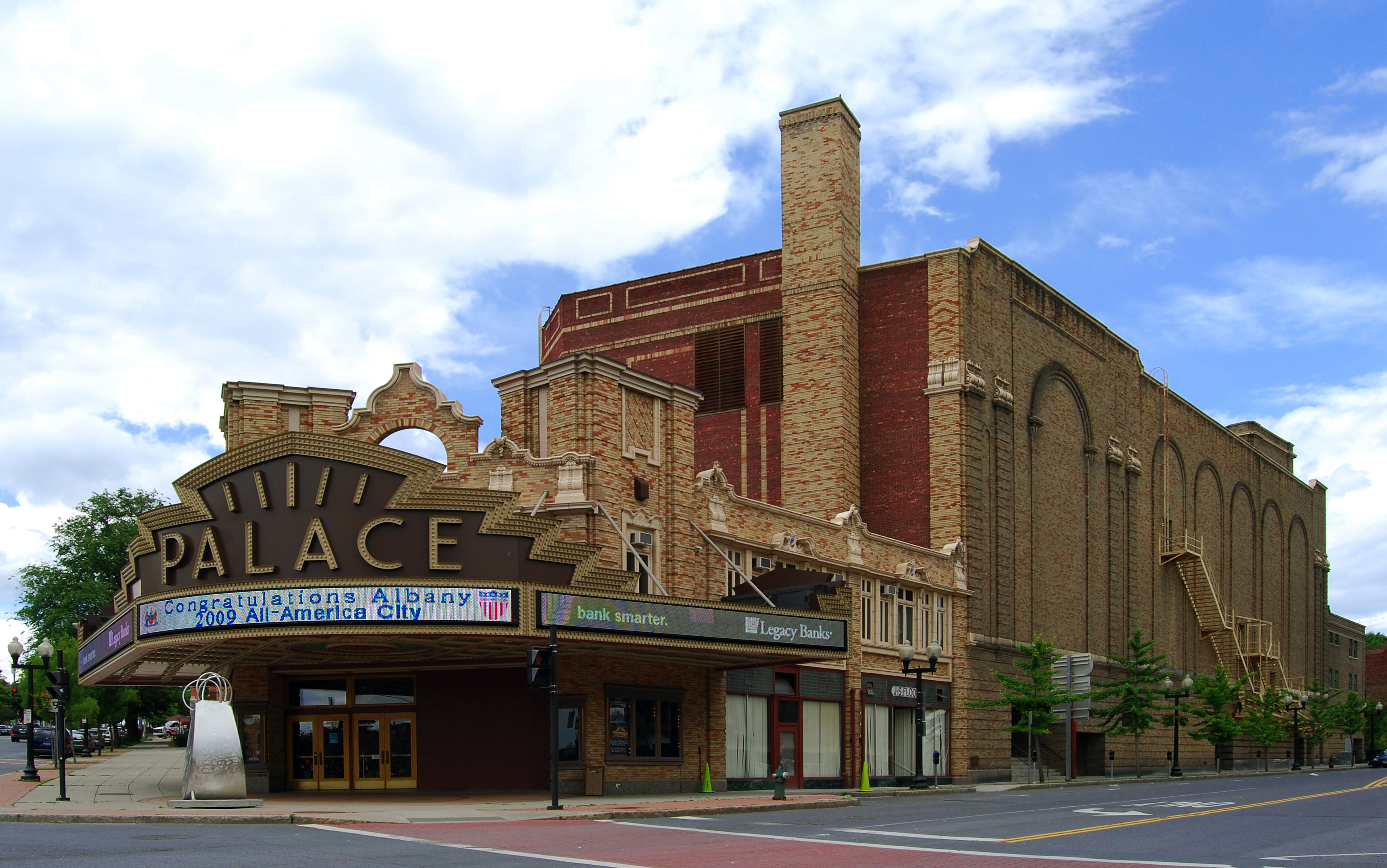 The Palace Theatre, opened in 1931 in Albany, New York, United States. It was added to the National Register of Historic Places in 1979 and is a contributing property to the Clinton Avenue Historic District, which was listed in 1988.